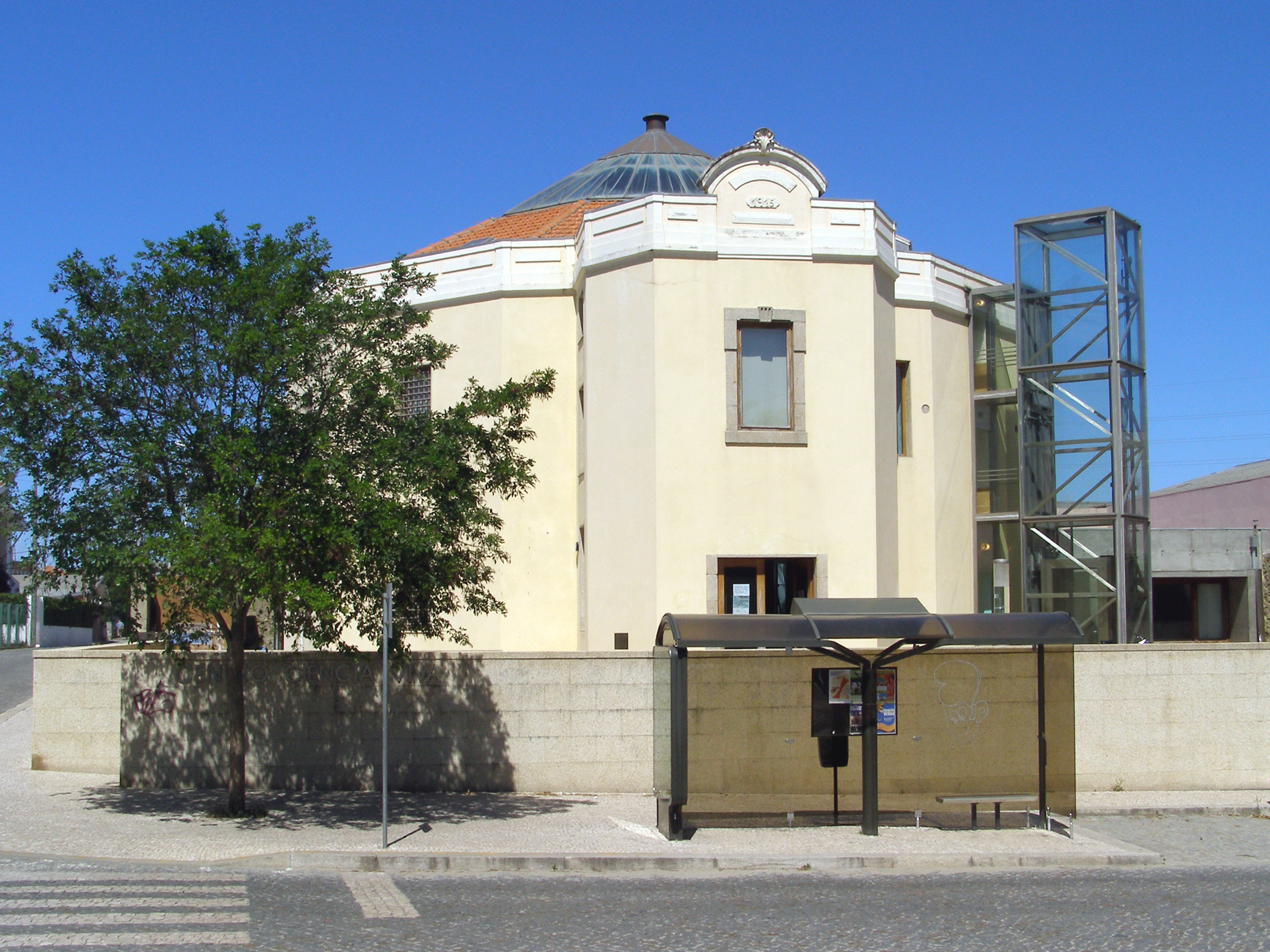 Ciência Viva (=Living Science) Centre of Vila do Conde, installed in the former municipal jail. Vila do Conde, Portugal.